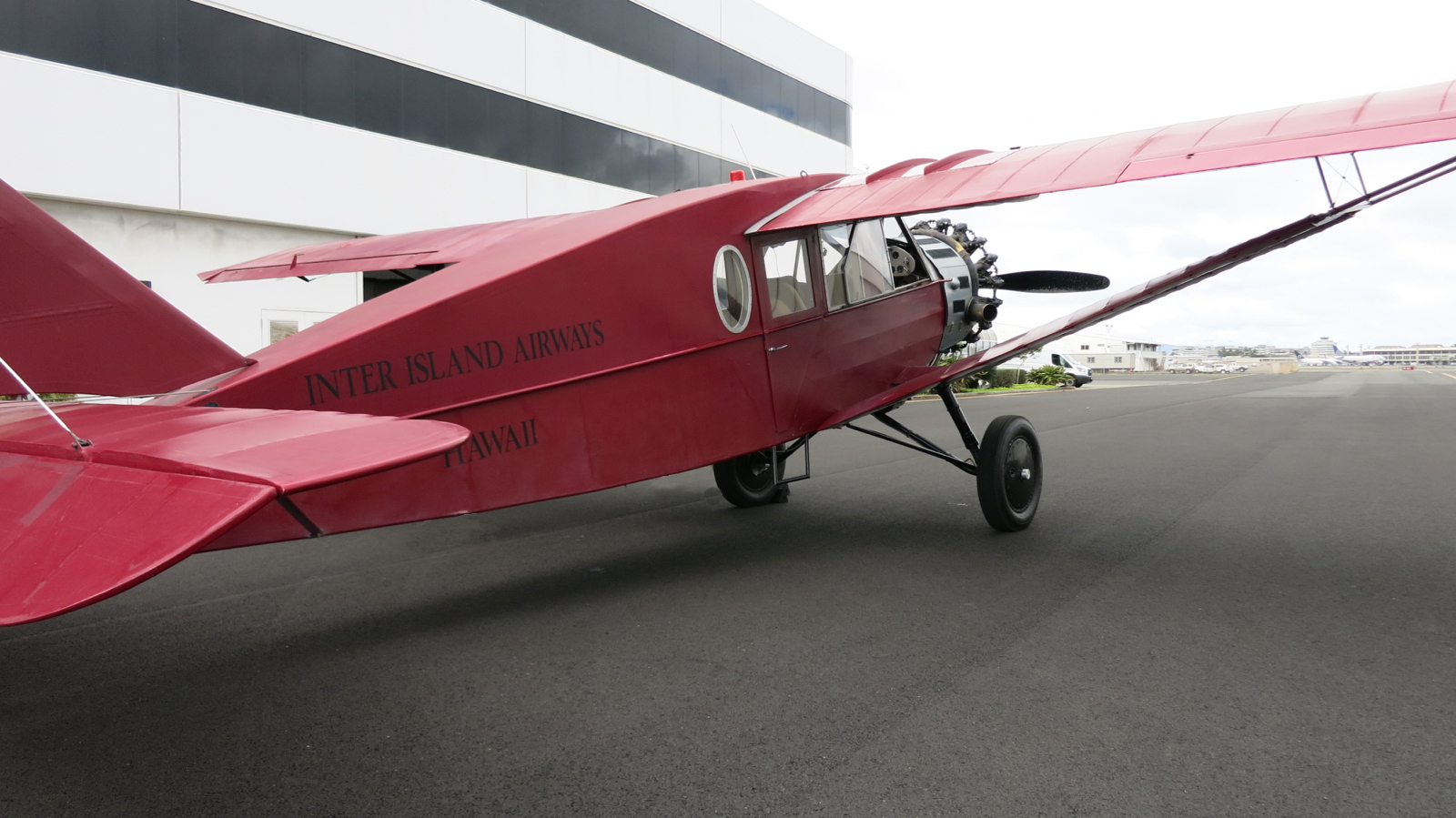 NC-251M, a 1929 Bellanca CH-300 in Inter-Island Airways livery, the predecessor to Hawaiian Airlines.